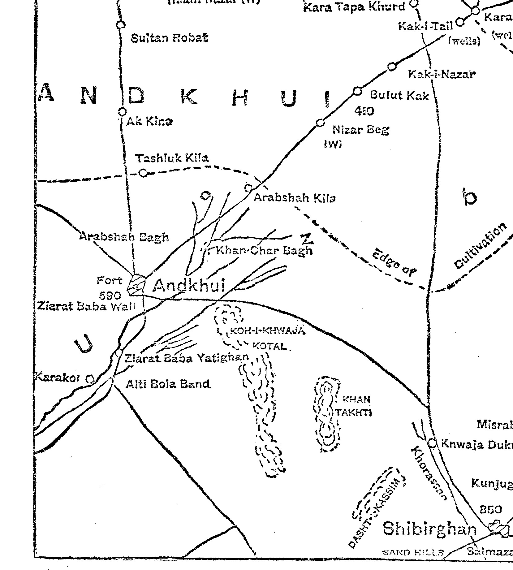 1886 map of Andkhoy District (Afghanistan) from a map of the Kham-i-Ab, or disputed area between Russia and Afghanistan.